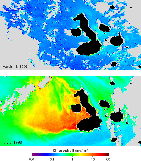 El Niño and La Niña, large-scale shifts in winds and currents in the equatorial Pacific, have dramatic effects on the ecosystems of the Galapagos. These satellite maps show chlorophyll concentration (which corresponds with the abundance of microscopic ocean plants, called phytoplankton) during El Niño (top) and La Niña (lower). Blue represents low concentrations, while yellow, orange and red indicate high concentrations. Currents that normally fertilize the phytoplankton reverse during El Niño, resulting in barren oceans. These same currents are strengthened by La Niña resulting in an explosion of ocean life.